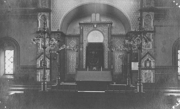 Inside of the synagogue of Bad Homburg (1866-1938) Photo taken circ 1910.